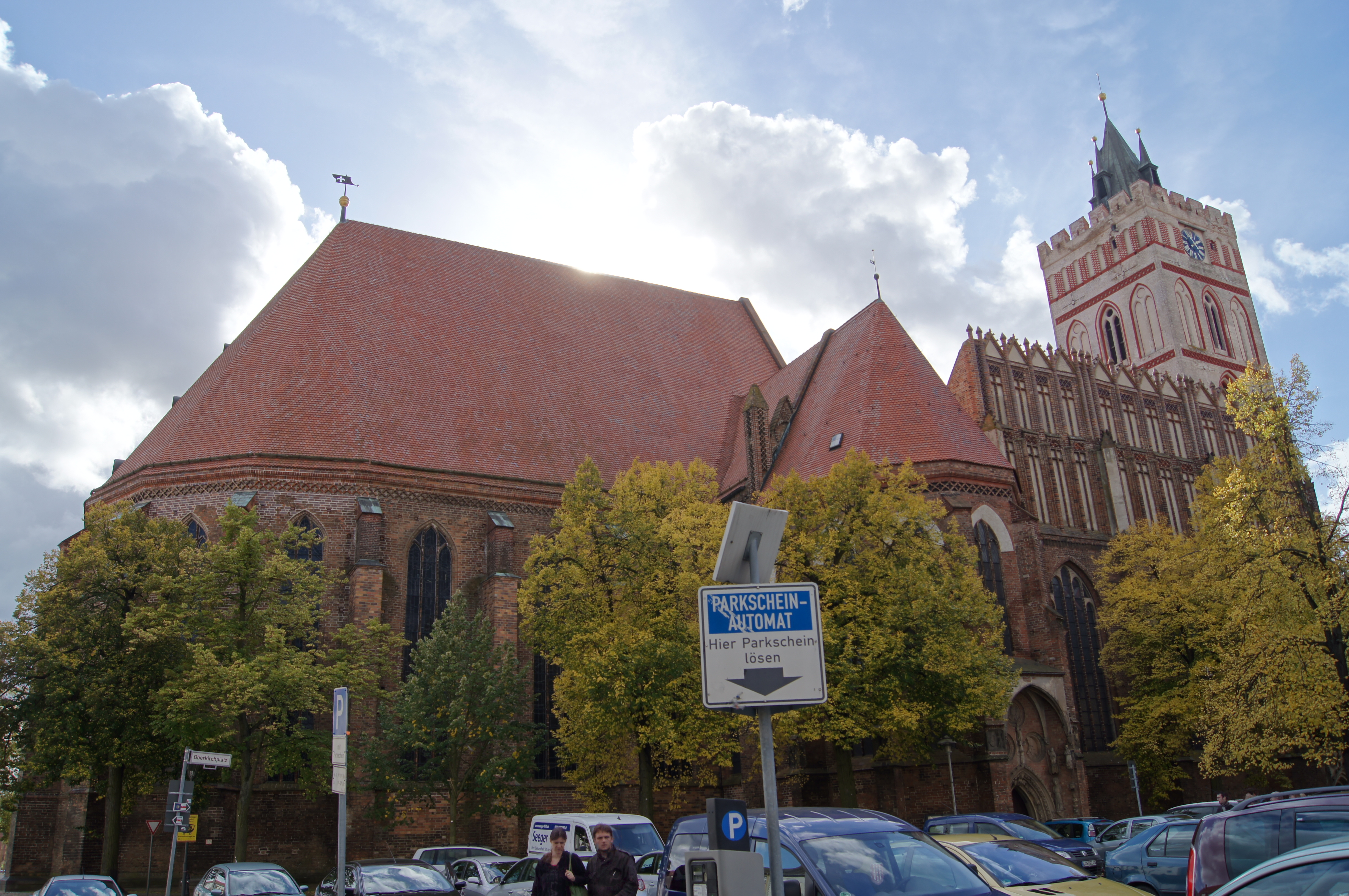 Marienkirche (Church of St Mary) Frankfurt (Oder), Brandenburg, Germany